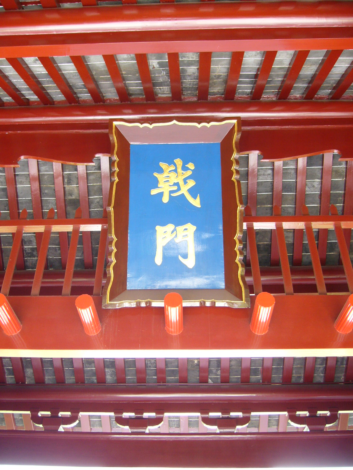 Ji Gate of the Chongming Confucian Temple